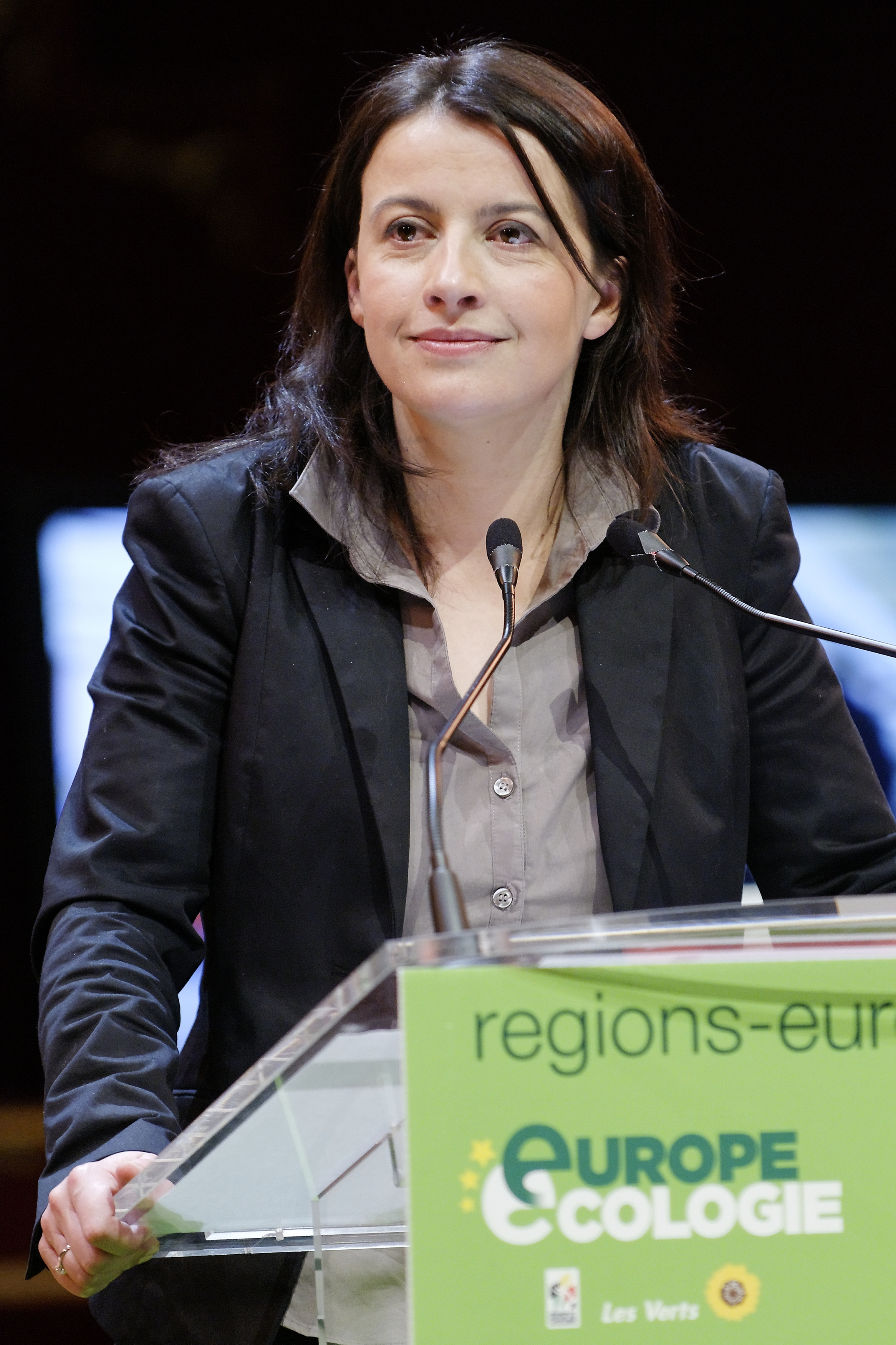 Cécile Duflot at Europe Écologie's closing rally of the 2010 French regional elections campaign at the Cirque d'hiver, Paris.